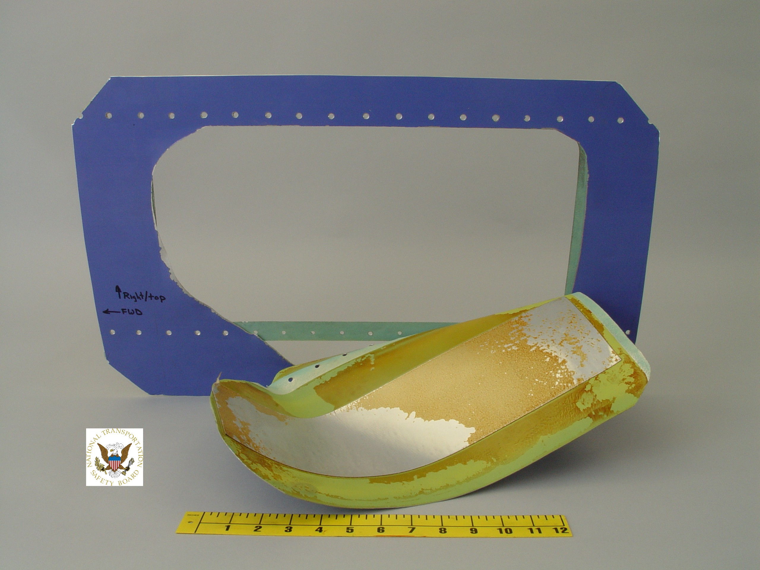 Exterior view of the damaged section from Southwest Airlines Flight 2294, which suffered structural damage followed by rapid decompression on July 13, 2009.